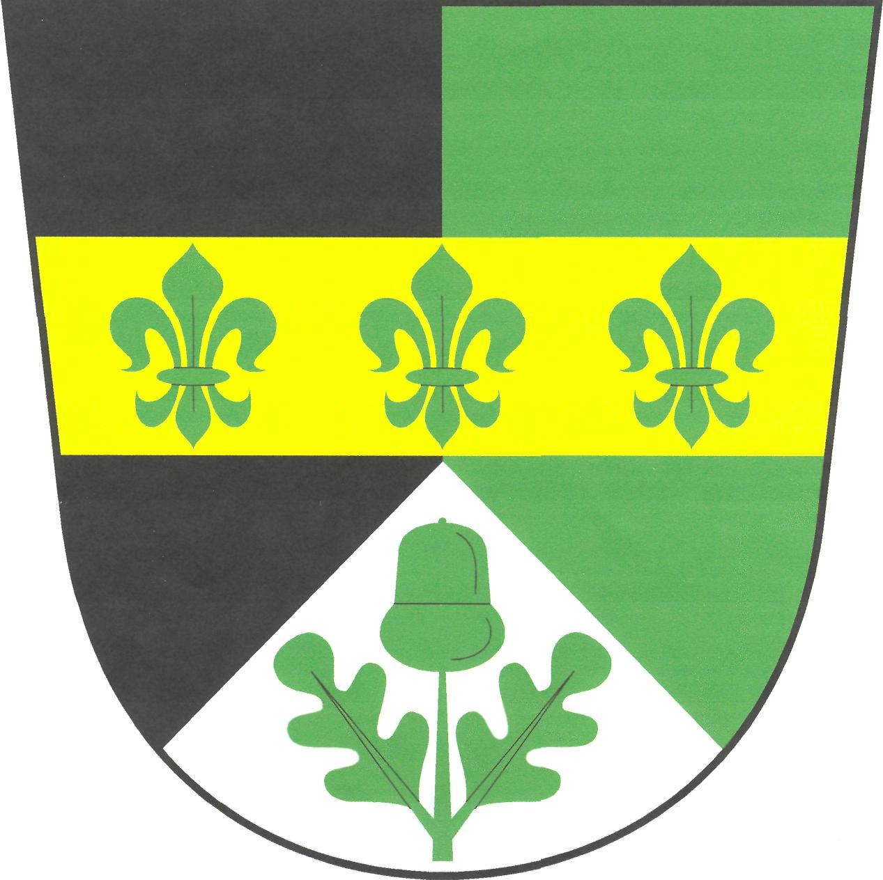 Coat of amrs of Dubno , District Příbram, Czech Republic